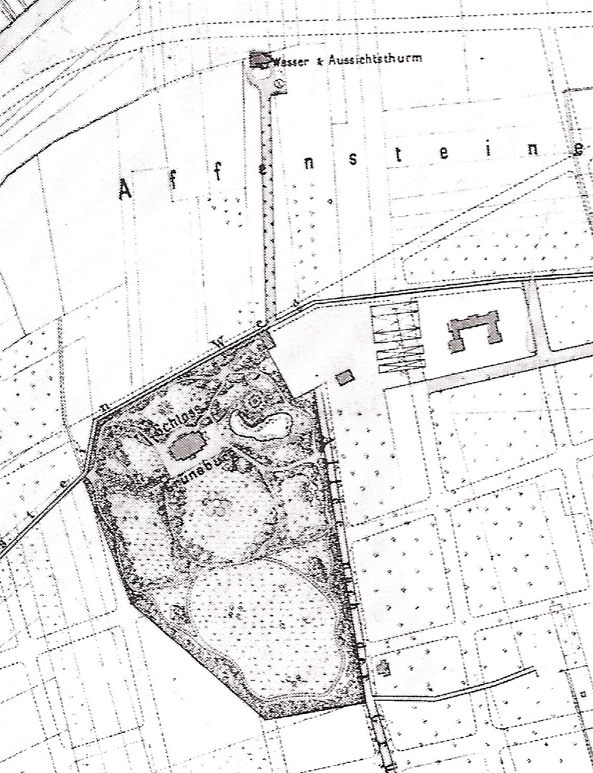 Frankfurt/M., Germany: Map of the Grüneburg Palais in the Westend. Detail of a town map created in 1887